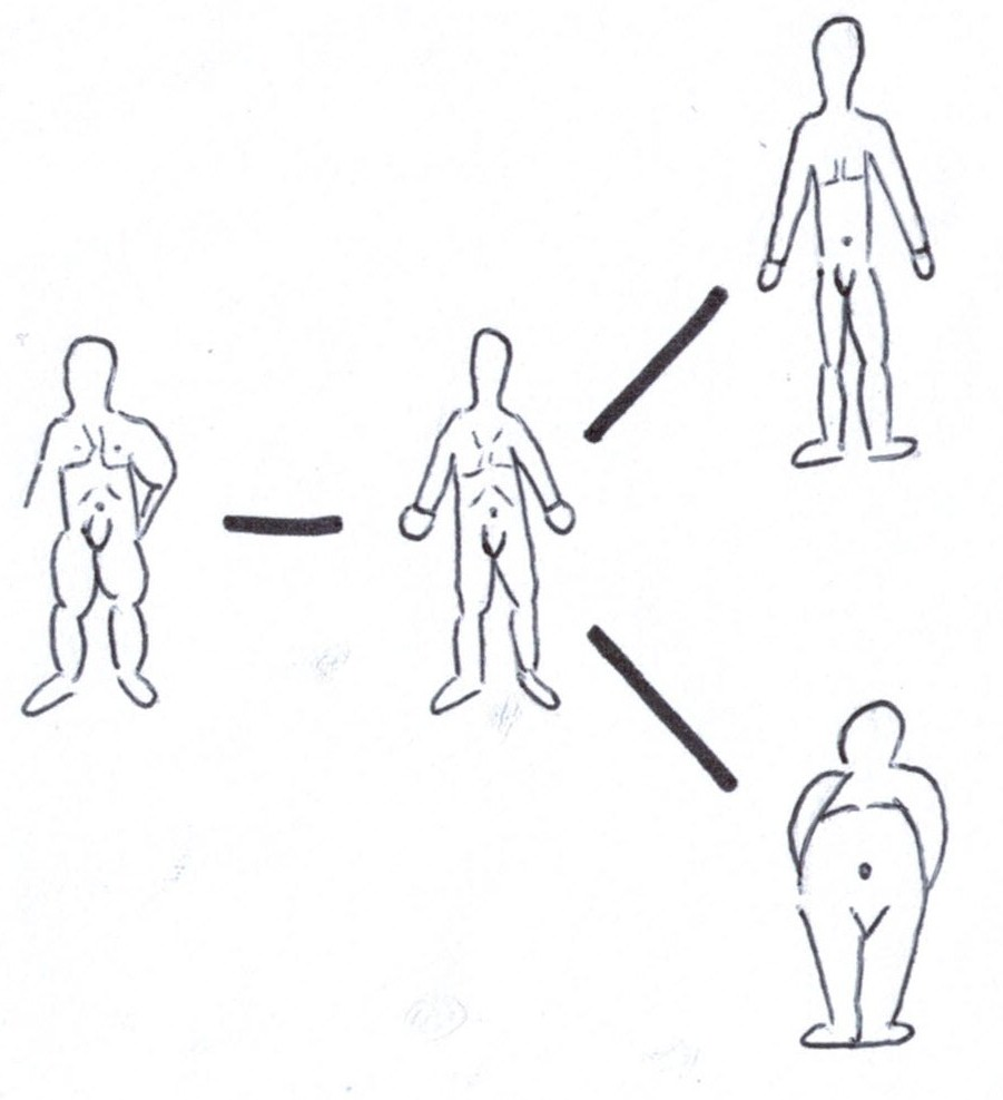 Forma del cos segons E. Kretschmer